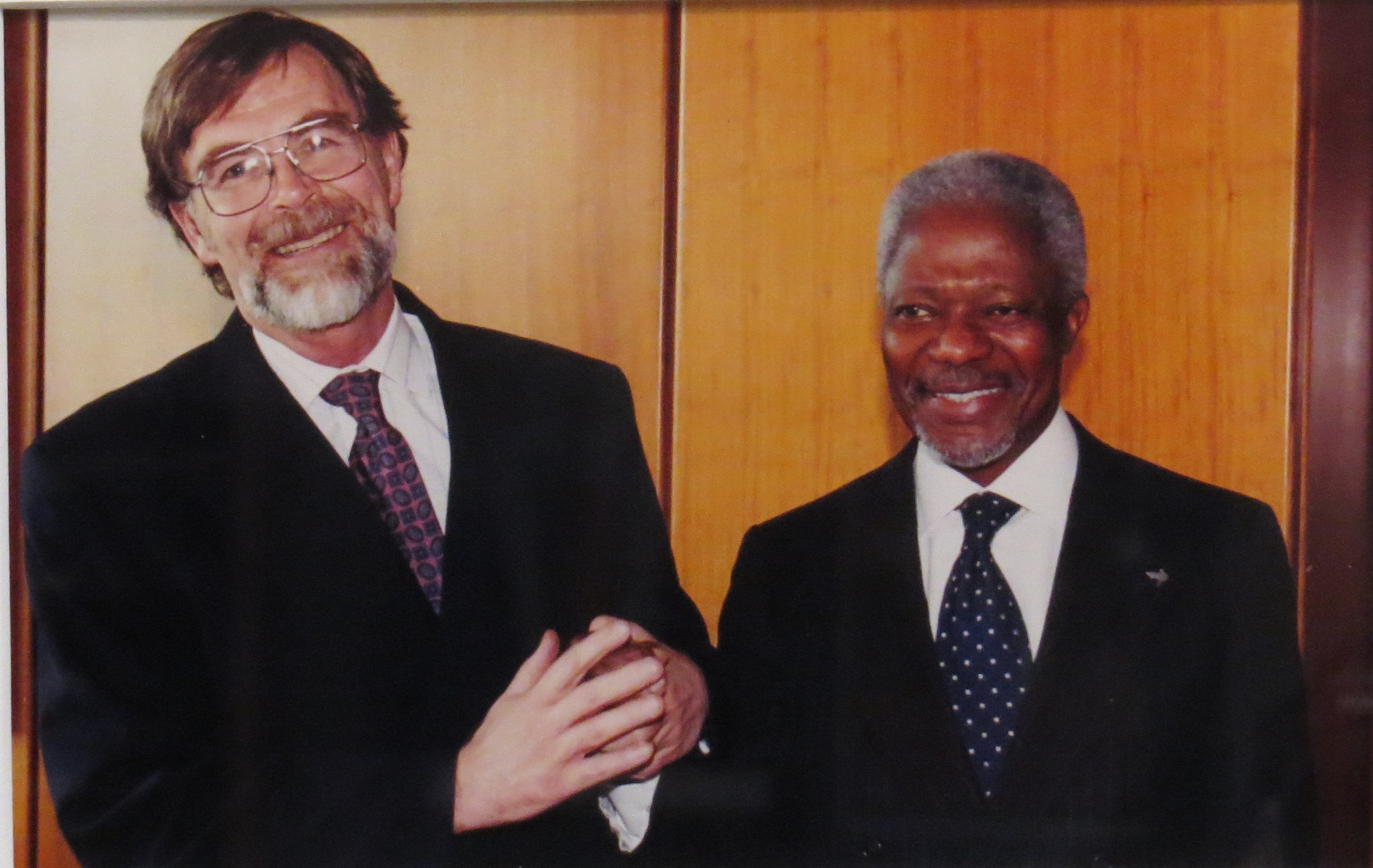 Marking the successful completion of the UN Intellectual History Project